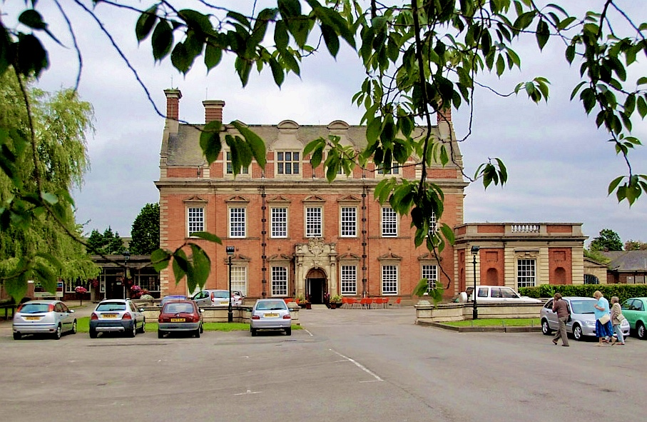 Created with the invaluable assistance of Mr. G.D.Fionda of Middlesbrough, England. One of a series of views of the interior and exterior of Acklam Hall, a Restoration mansion in Middlesbrough, England. Photograph taken in September 2007.